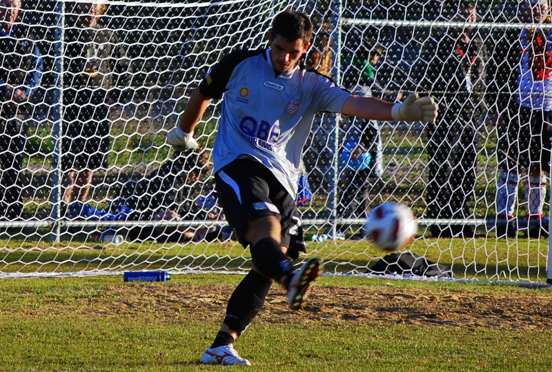 Aleks Vrteski playing for Armadale FC in a pre-season game against his side Perth Glory